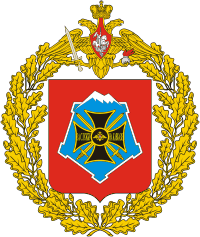 Emblem of North Caucasus Military District